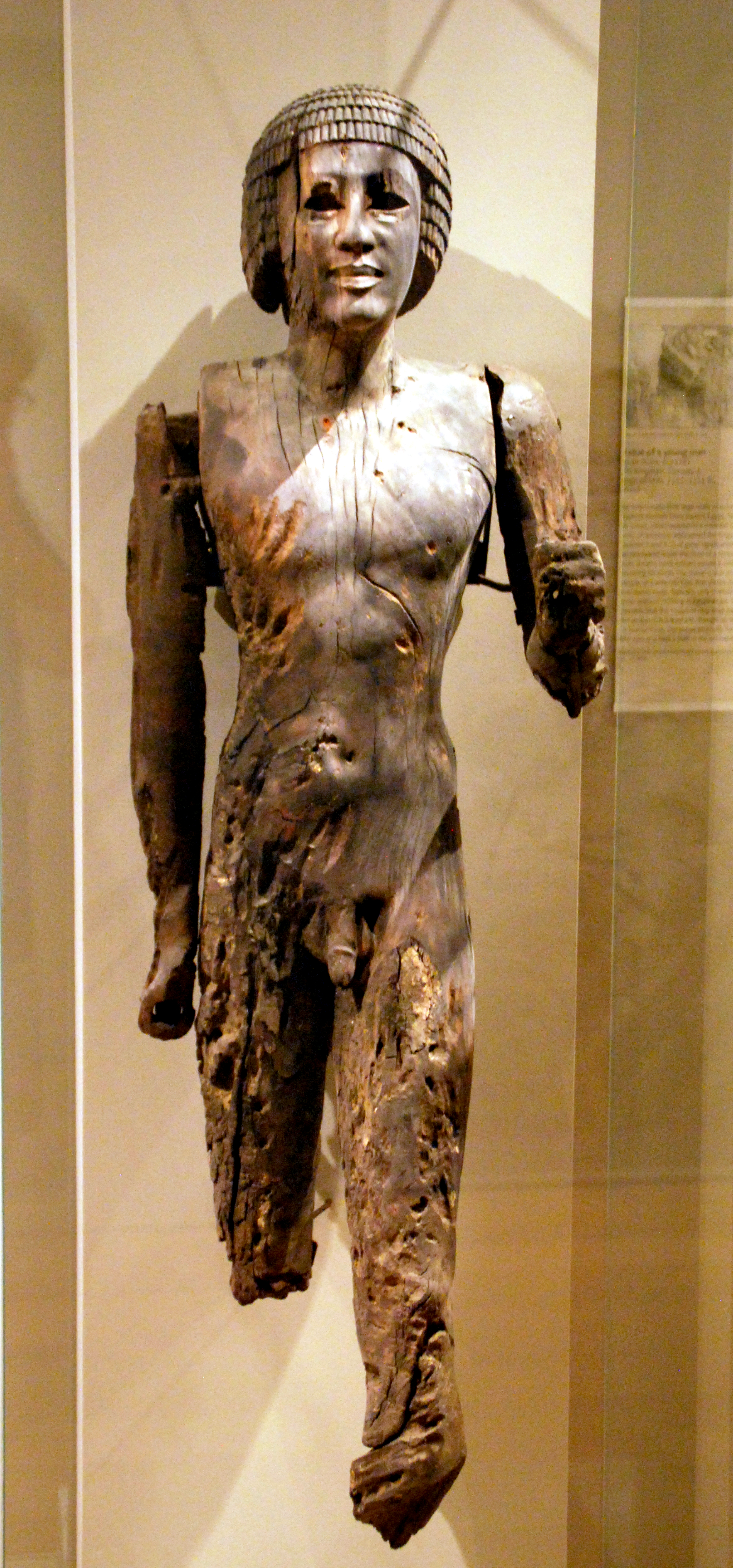 Statue of a young man at the Museum of Fine Arts. Wood. From Egypt (Giza G2378), Reign of Unis; Old Kingdom, 5th Dynasty